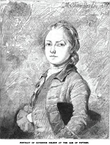 Portrait of Governor Thomas Nelson at age 15.